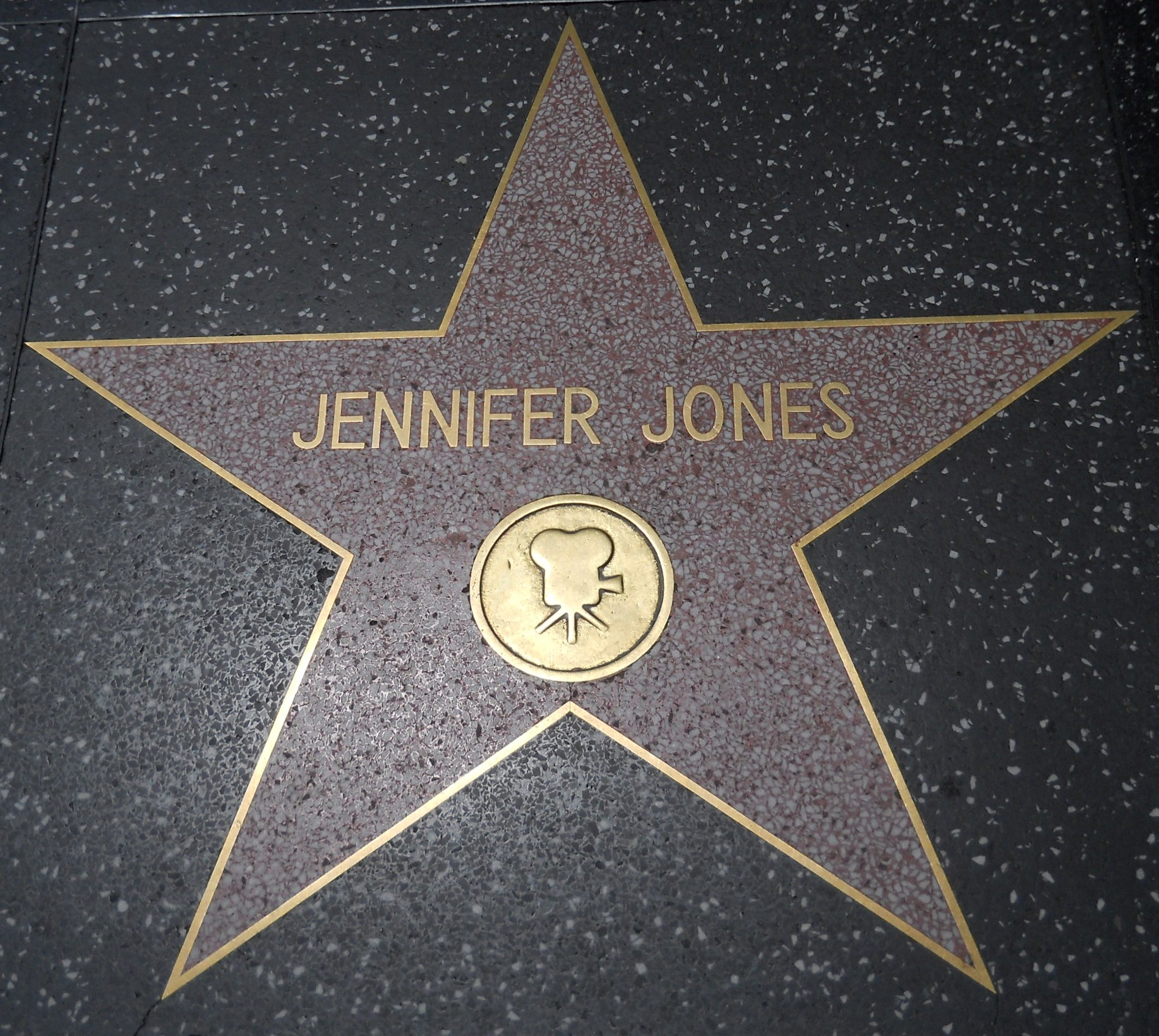 Jennifer Jones' star on Hollywood Walk of Fame at 6429 Hollywood Blvd.